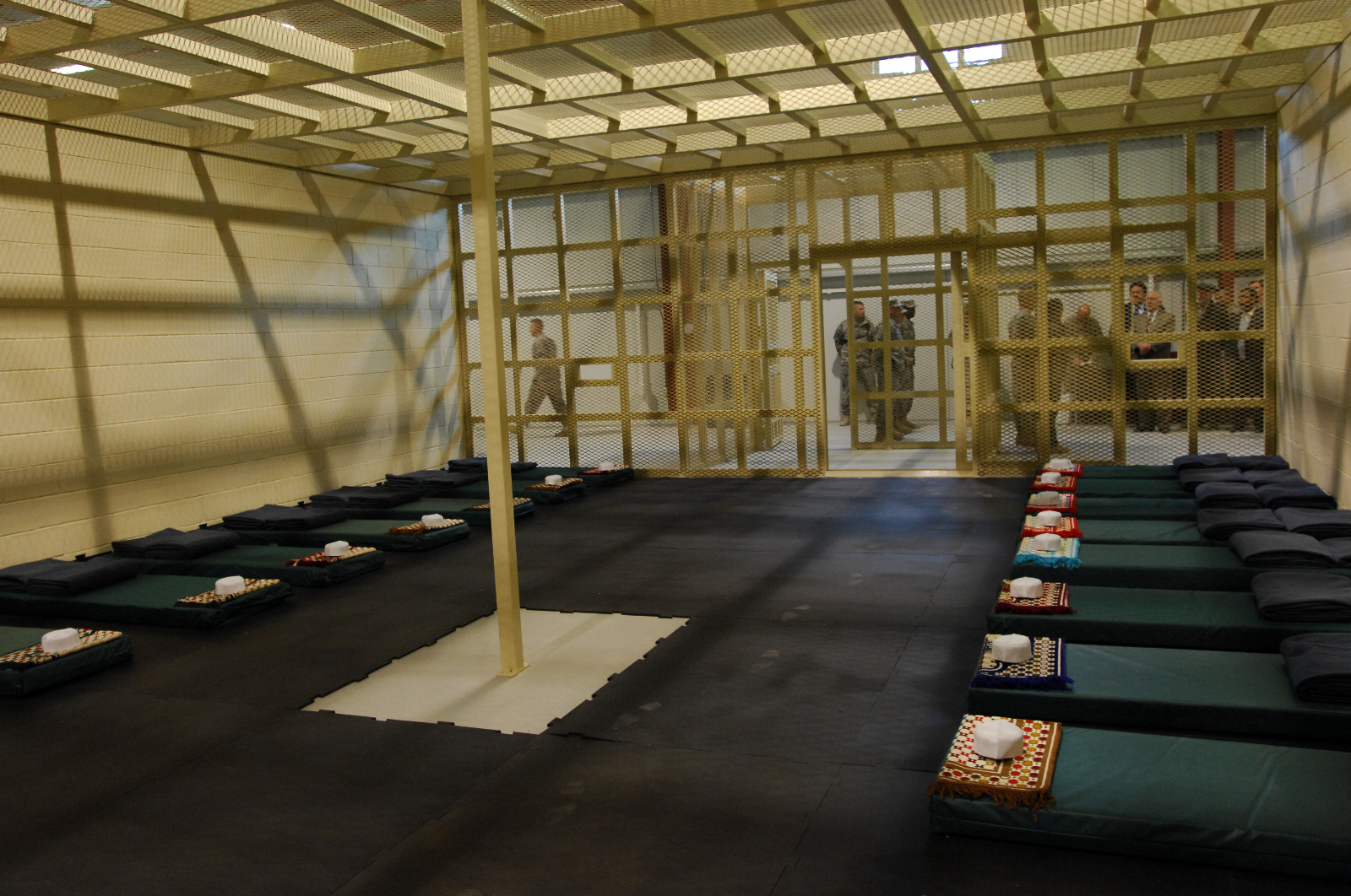 A multi-bed housing inside the US-built detention facility in the Parwan Province of Afghanistan.